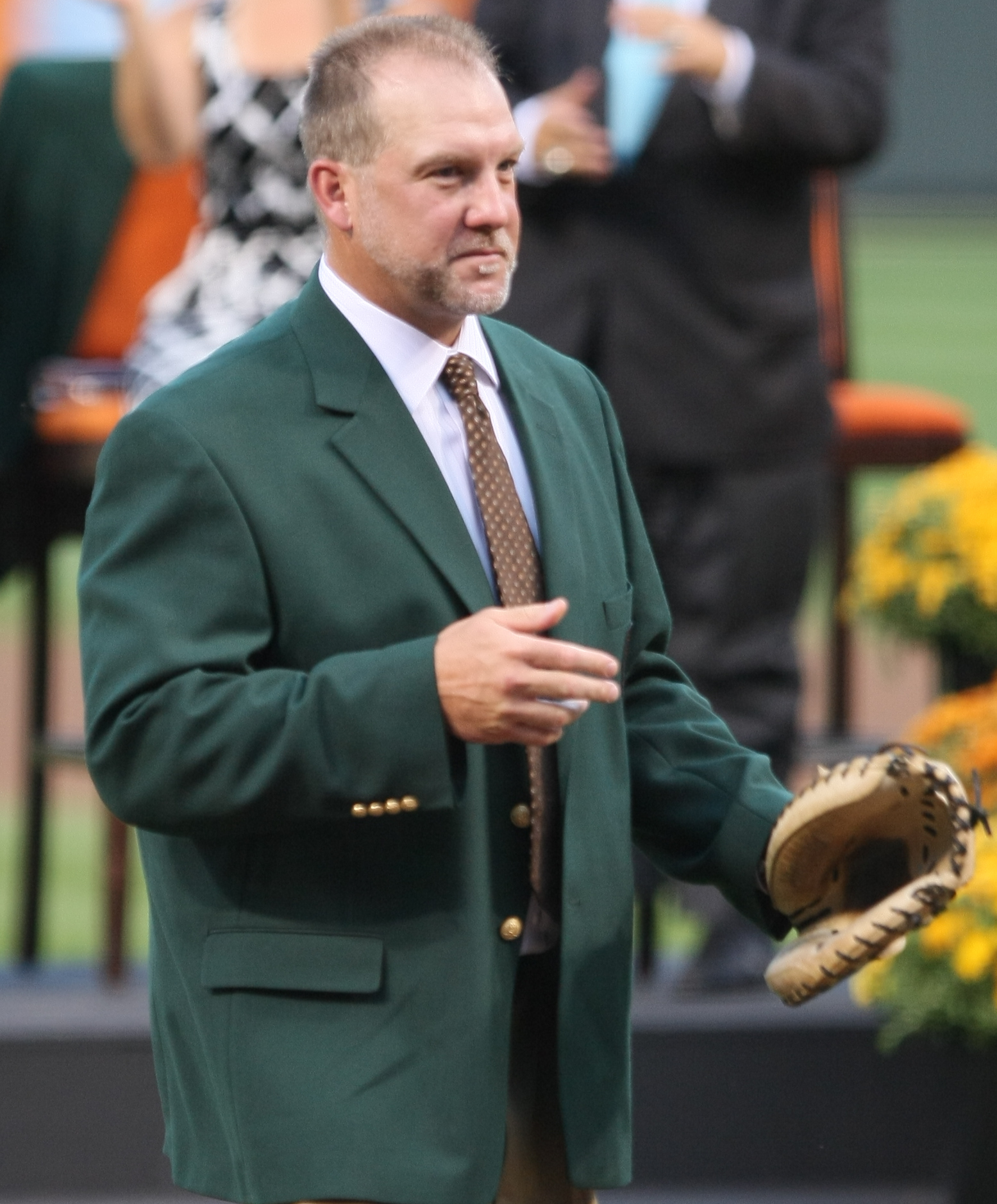 Former Baltimore Orioles catcher Chris Hoiles in 2009. This file has been extracted from another file: Chris Hoiles 2009.jpg